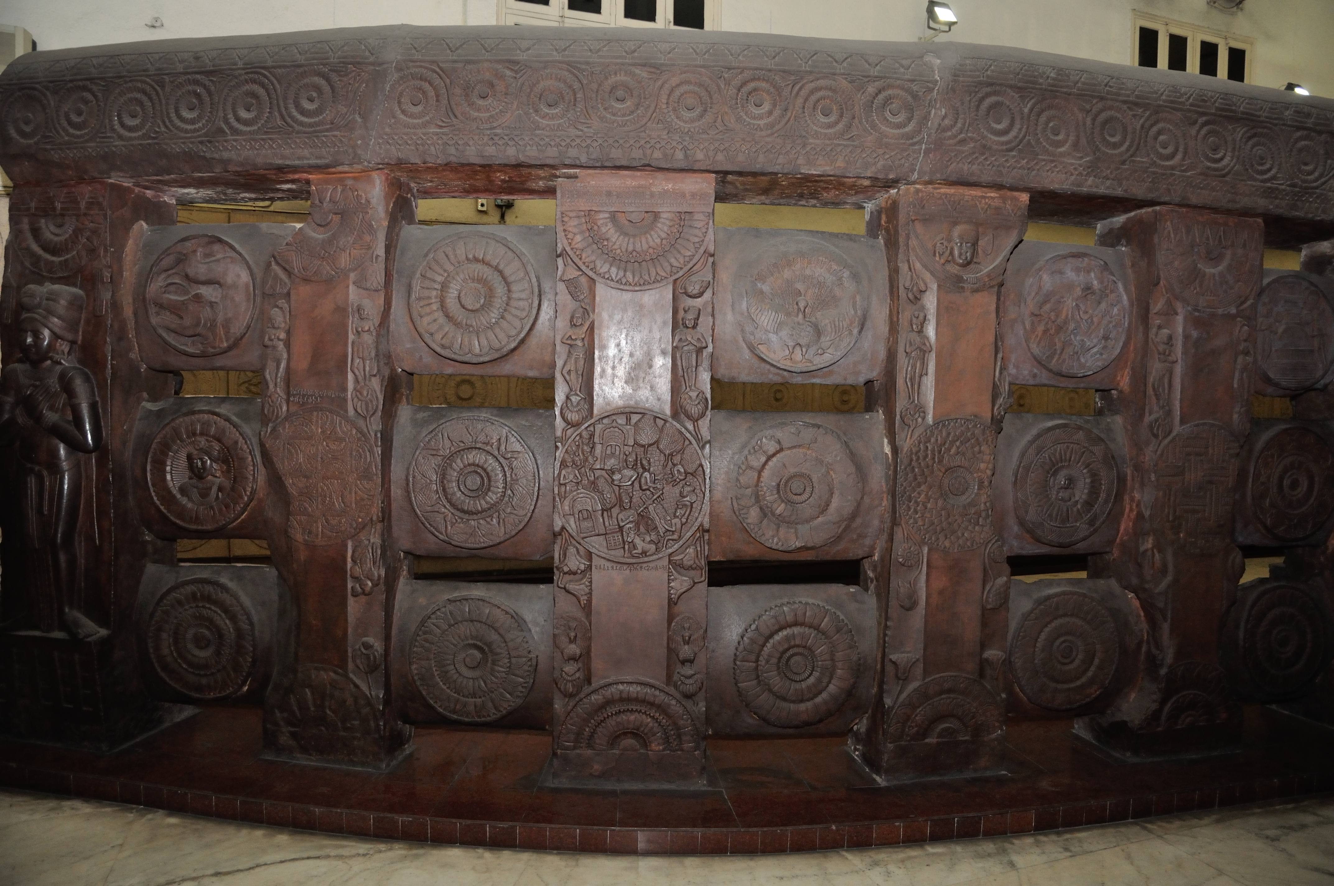 Photographed at the Bharhut Gallery of Indian Museum, Kolkata.